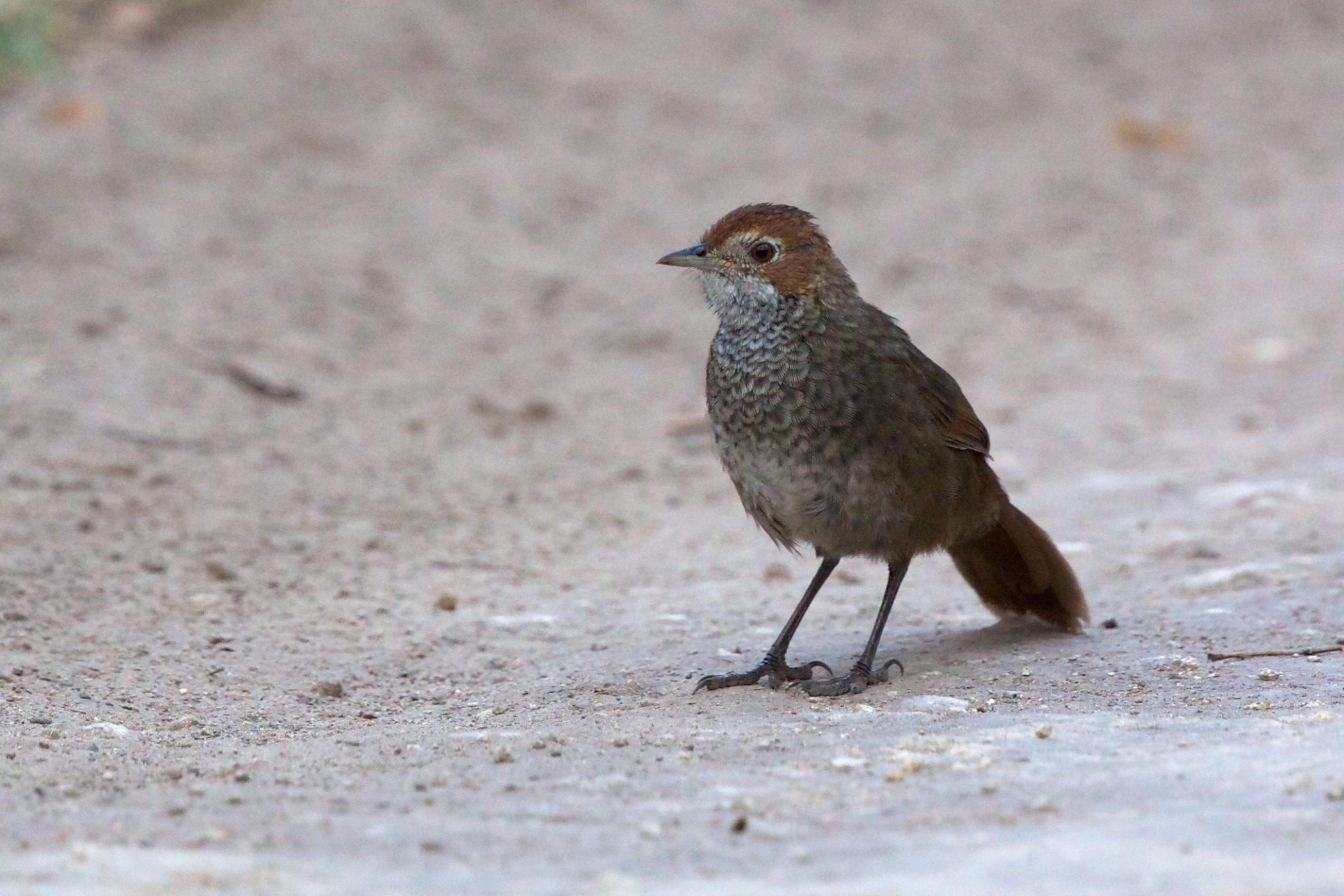 Dasyornis broadbenti: Listed as Vulnerable in Australia and Near-threatened in Victoria. I have also seen it listed as "Least Concern". McLennans Punt, Lower Glenelg National Park, Victoria.